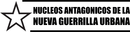 Logo used by Núcleos Antagónicos de la Nueva Guerrilla Urbana